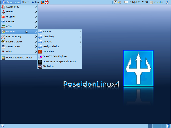 A view of y desktop under Poseidon GNU/Linux 4.0